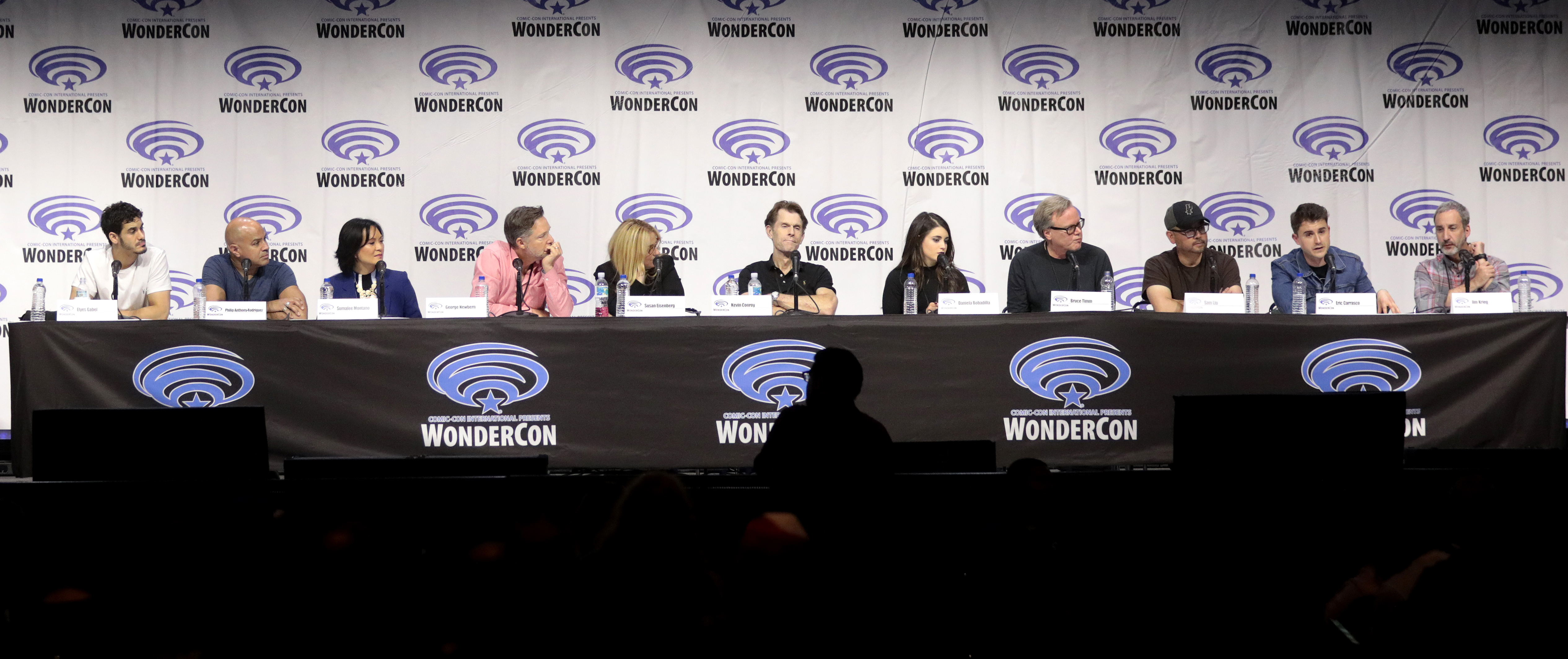 The cast of Justice League vs. the Fatal Five at the 2019 WonderCon in Anaheim, California.